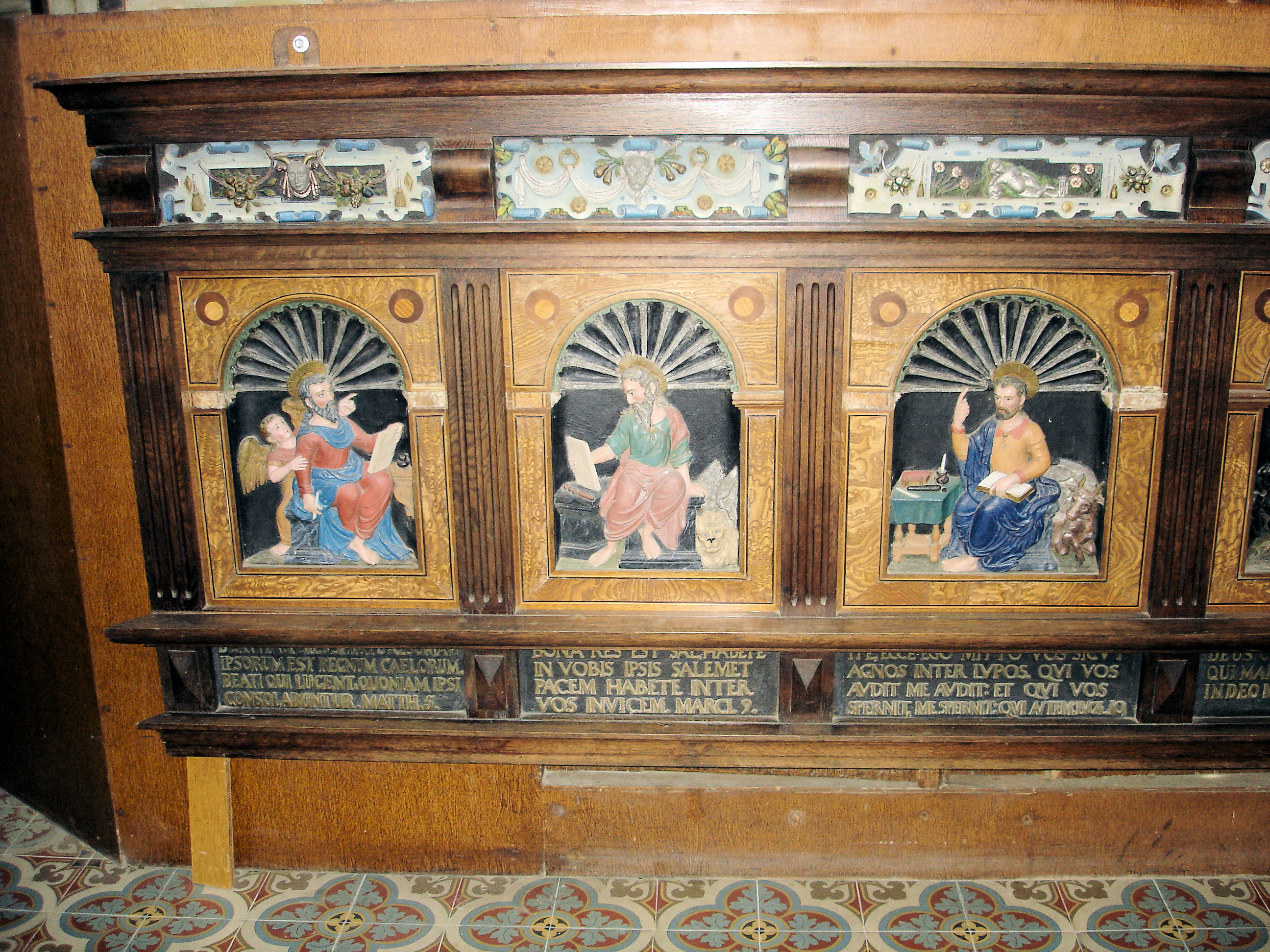 Part of the altar in the church in Tribsees, Mecklenburg-Vorpommern, Germany